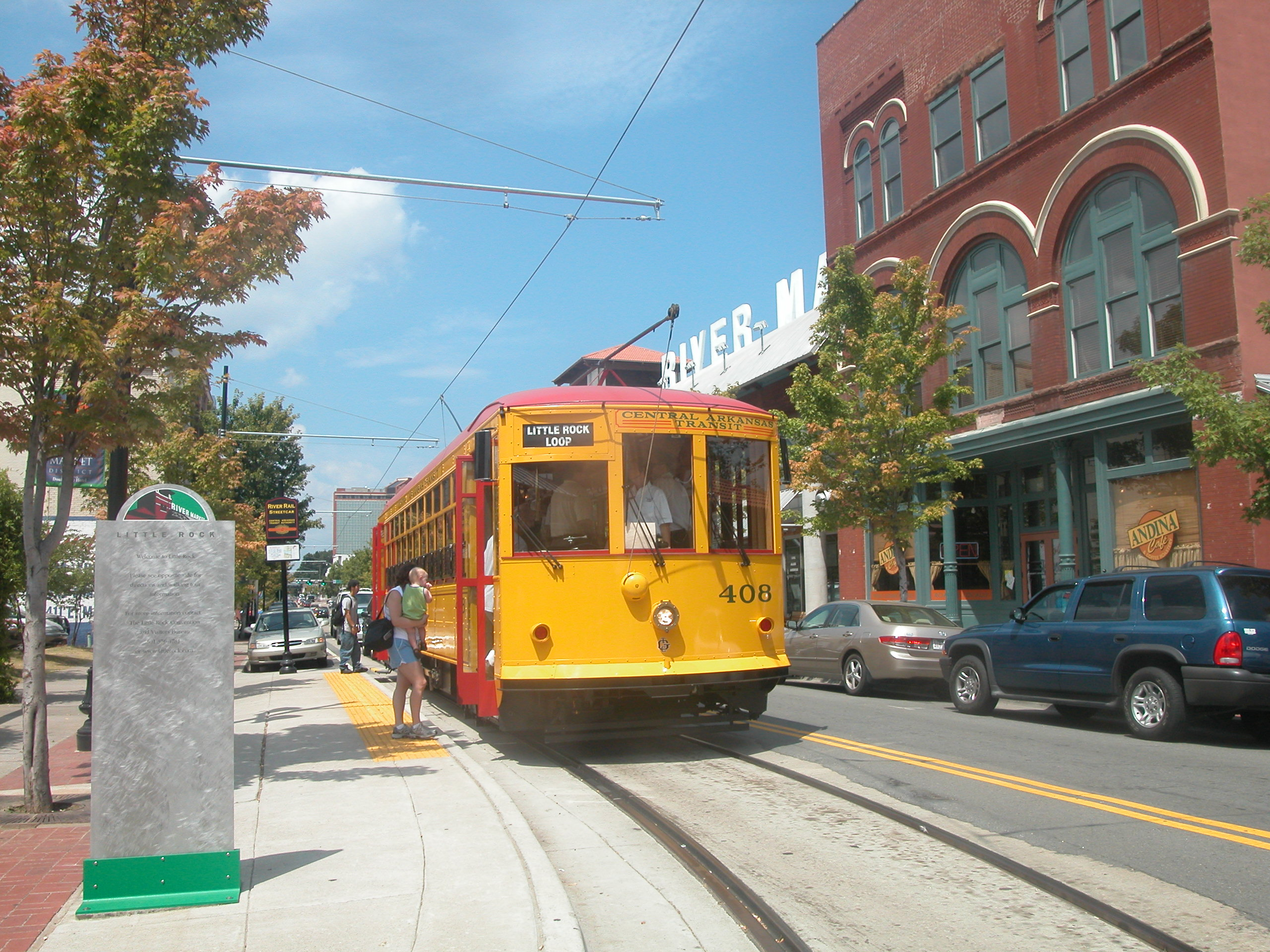 20050816 09 CATS 408 President Clinton Ave. @ Commerce St.